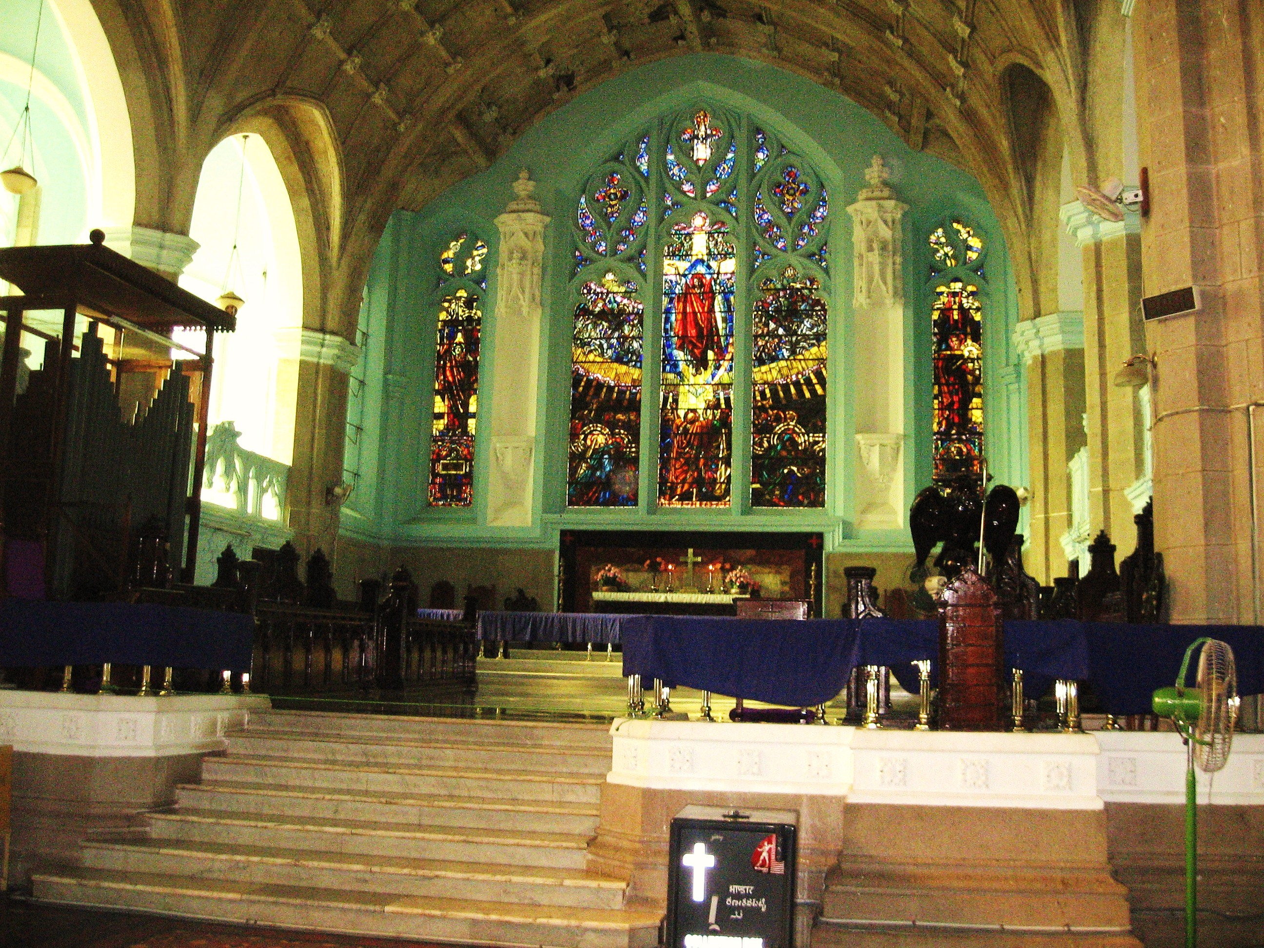 own work